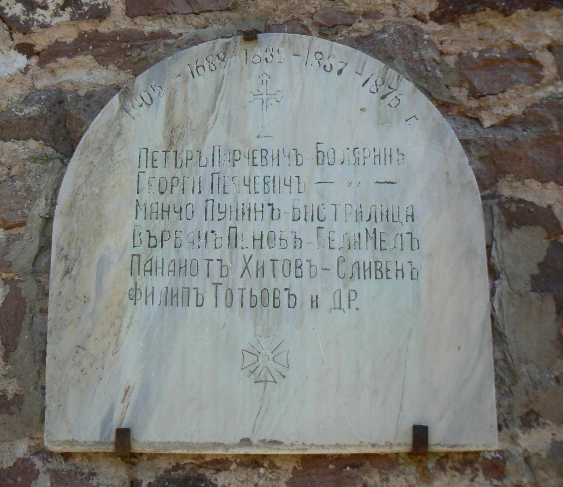 The memorial plaque on the ossuary wall of Chiprovski monastery, Bulgaria. Listed are the leaders of revolutions in the region of Chiprovtsi: Peter Parchevich, Georgi Peyachevich, Mancho Punin, Vurban Panov, Panayot Hitov, Filip Totyu